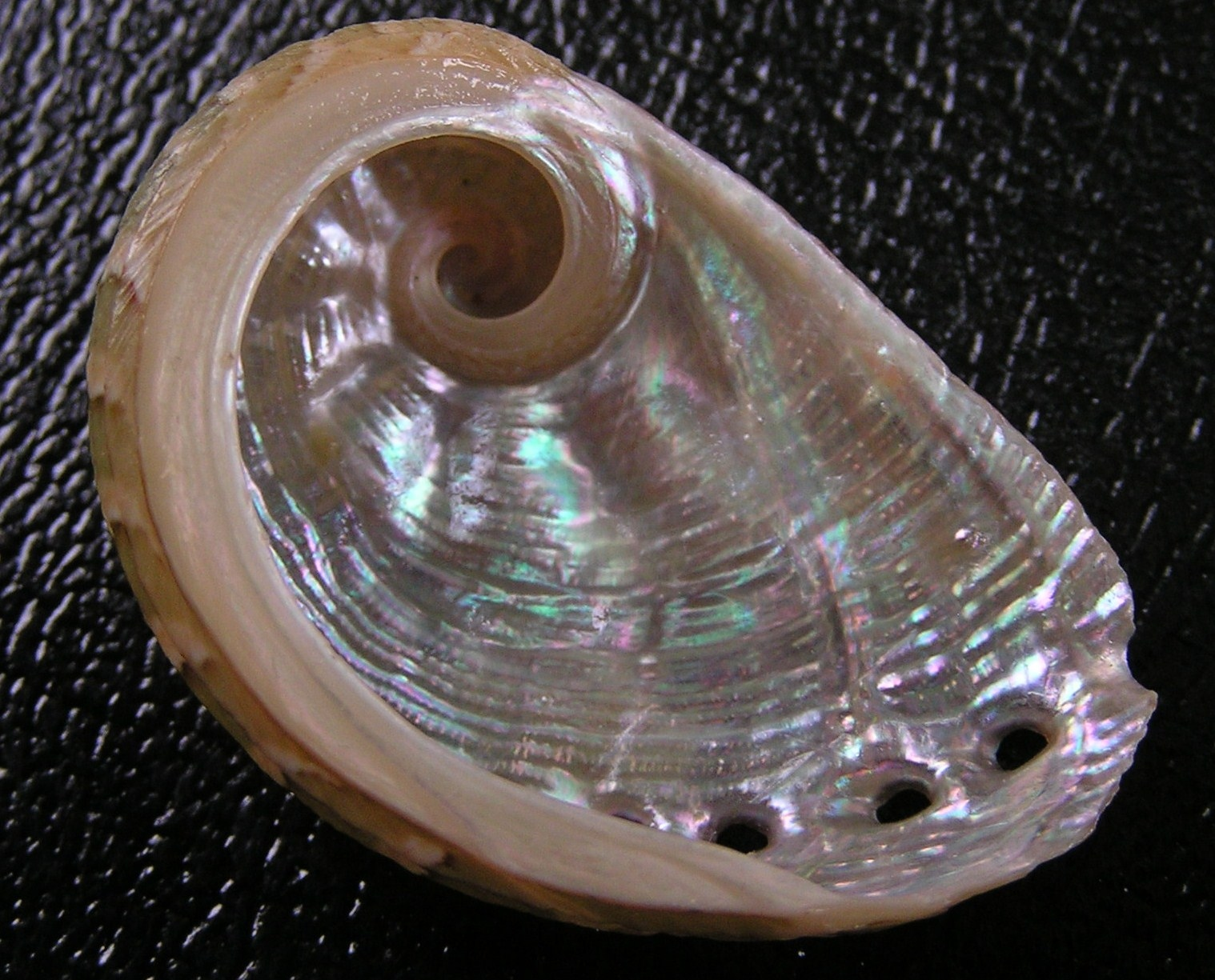 Haliotis coccoradiata Reeve, 1846; family Haliotidae; New South Wales, Australia